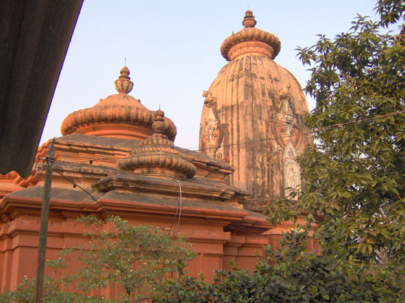 Karnagarh temple near Midnapore